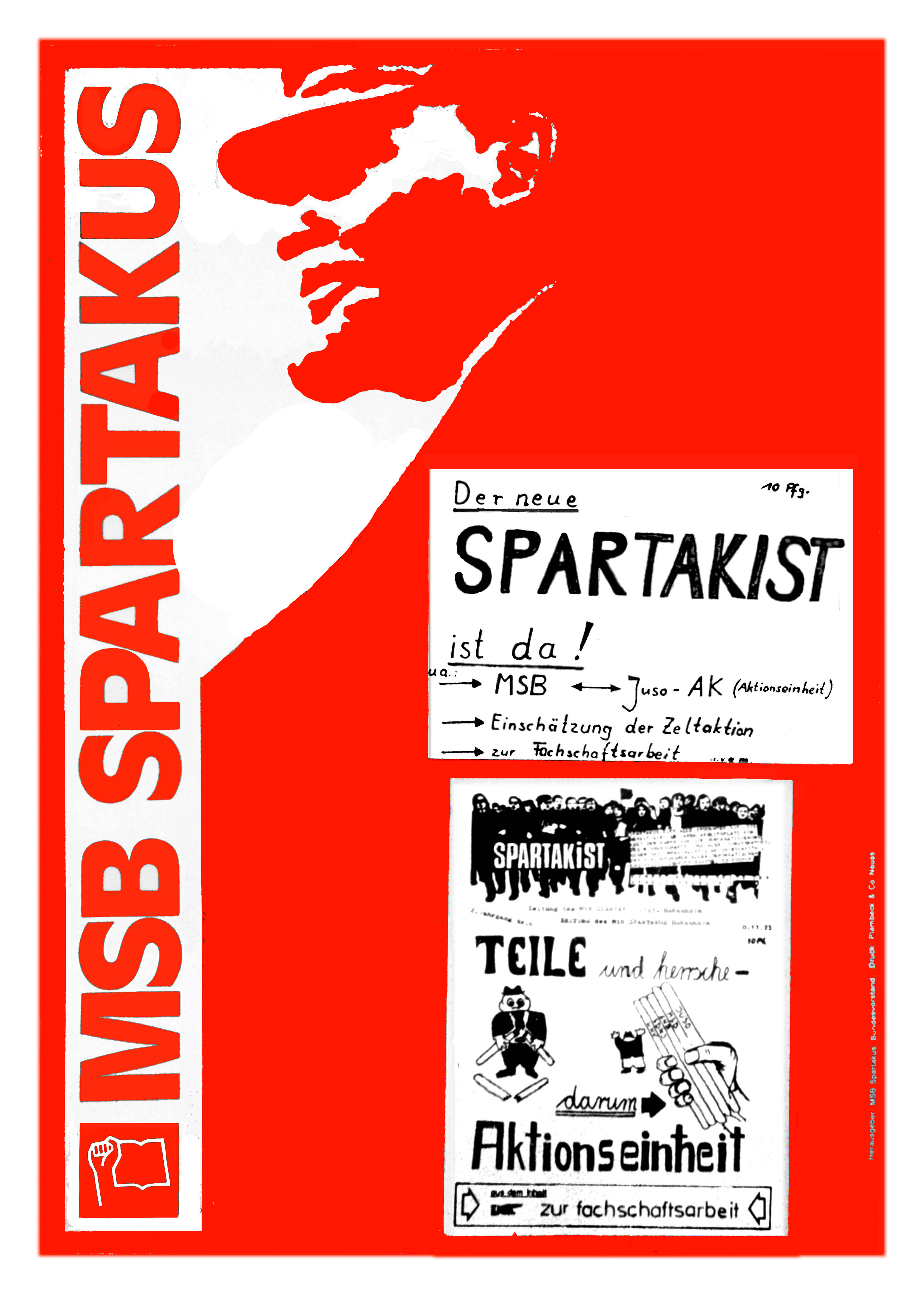 image: "MSB Spartakus (Section of Universität Hohenheim) wall newspaper 8.11.1973"